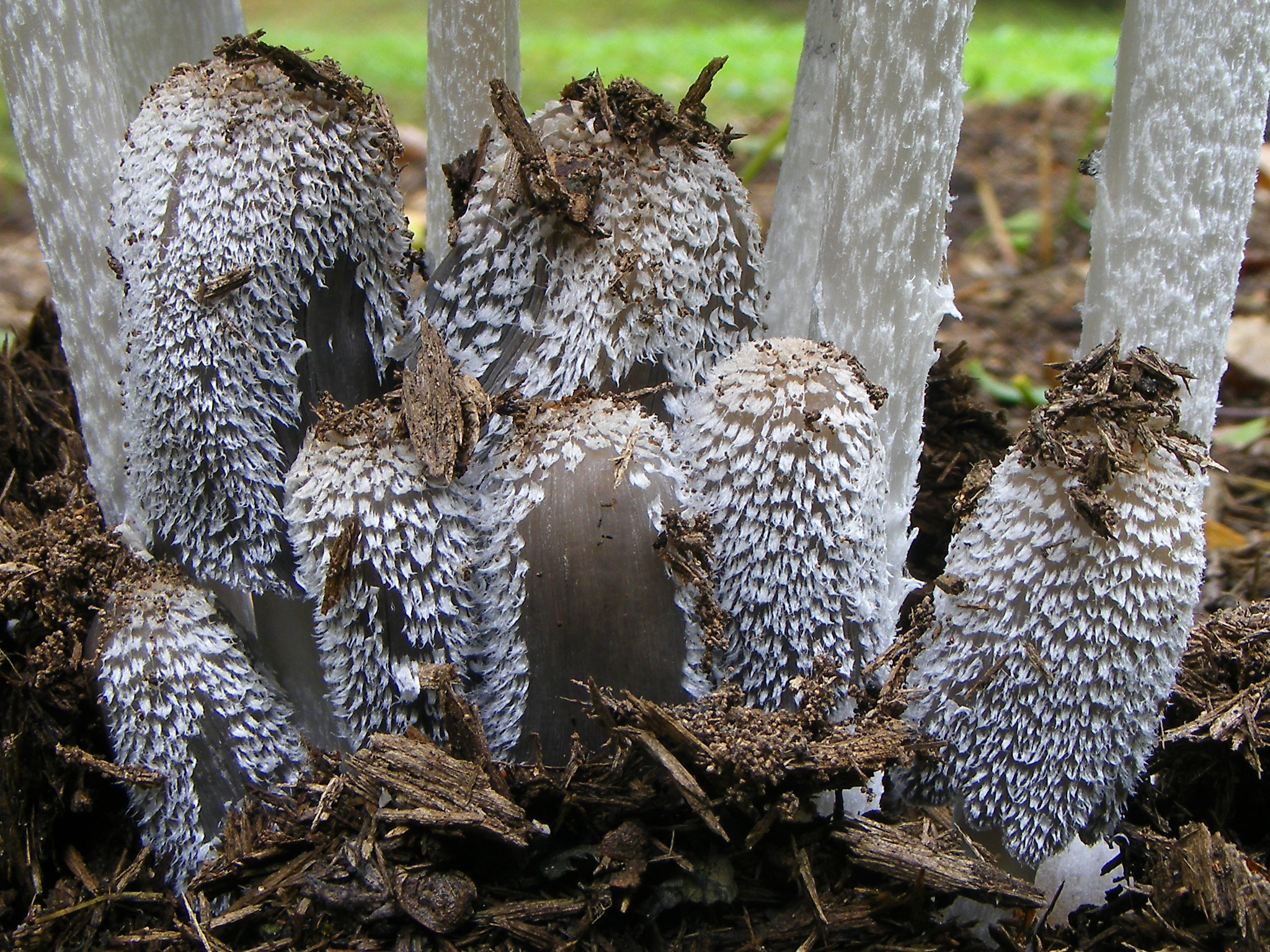 Coprinopsis lagopus - young specimens.